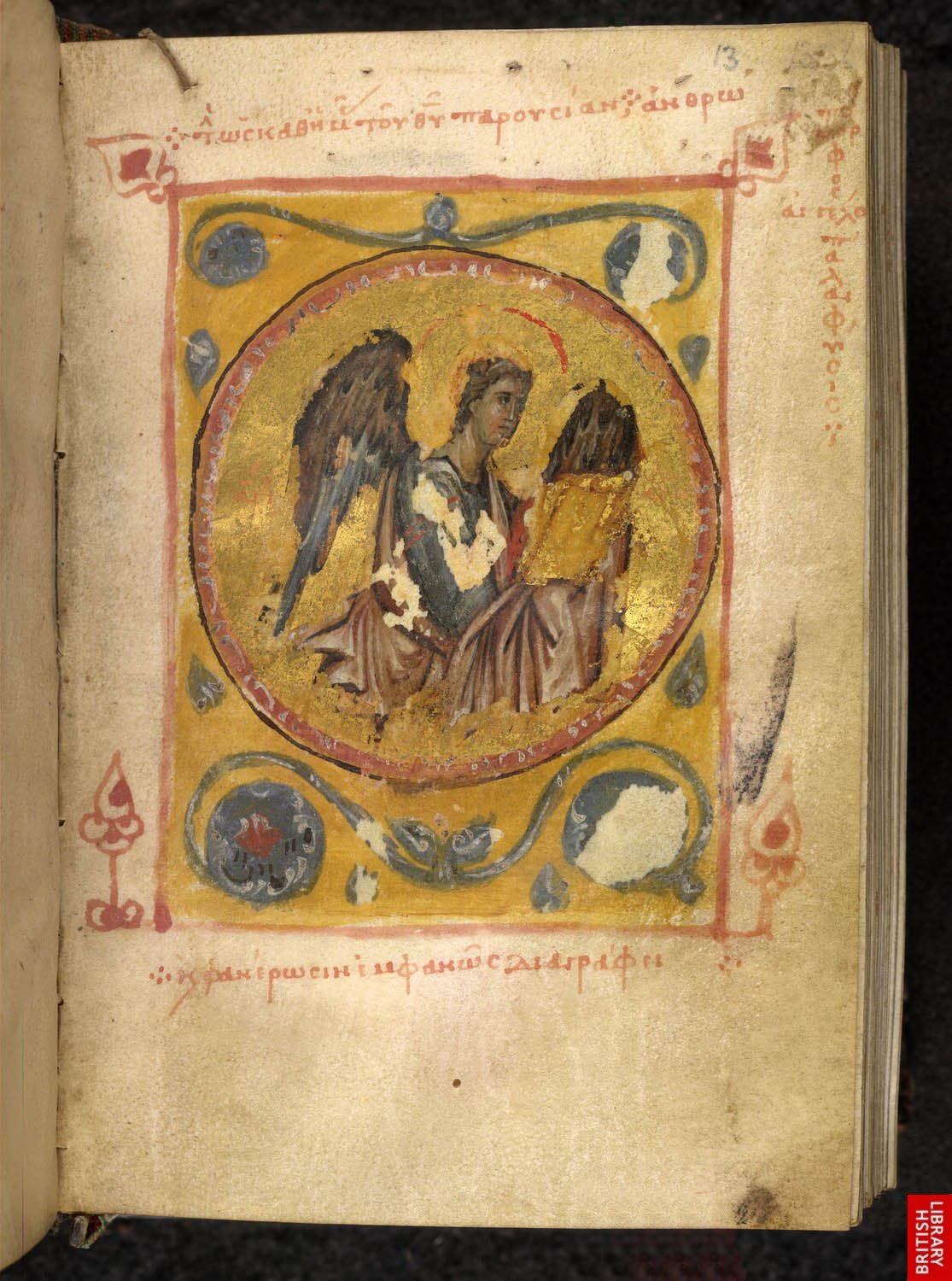 Folio 13 recto portrait of Evangelist Matthew